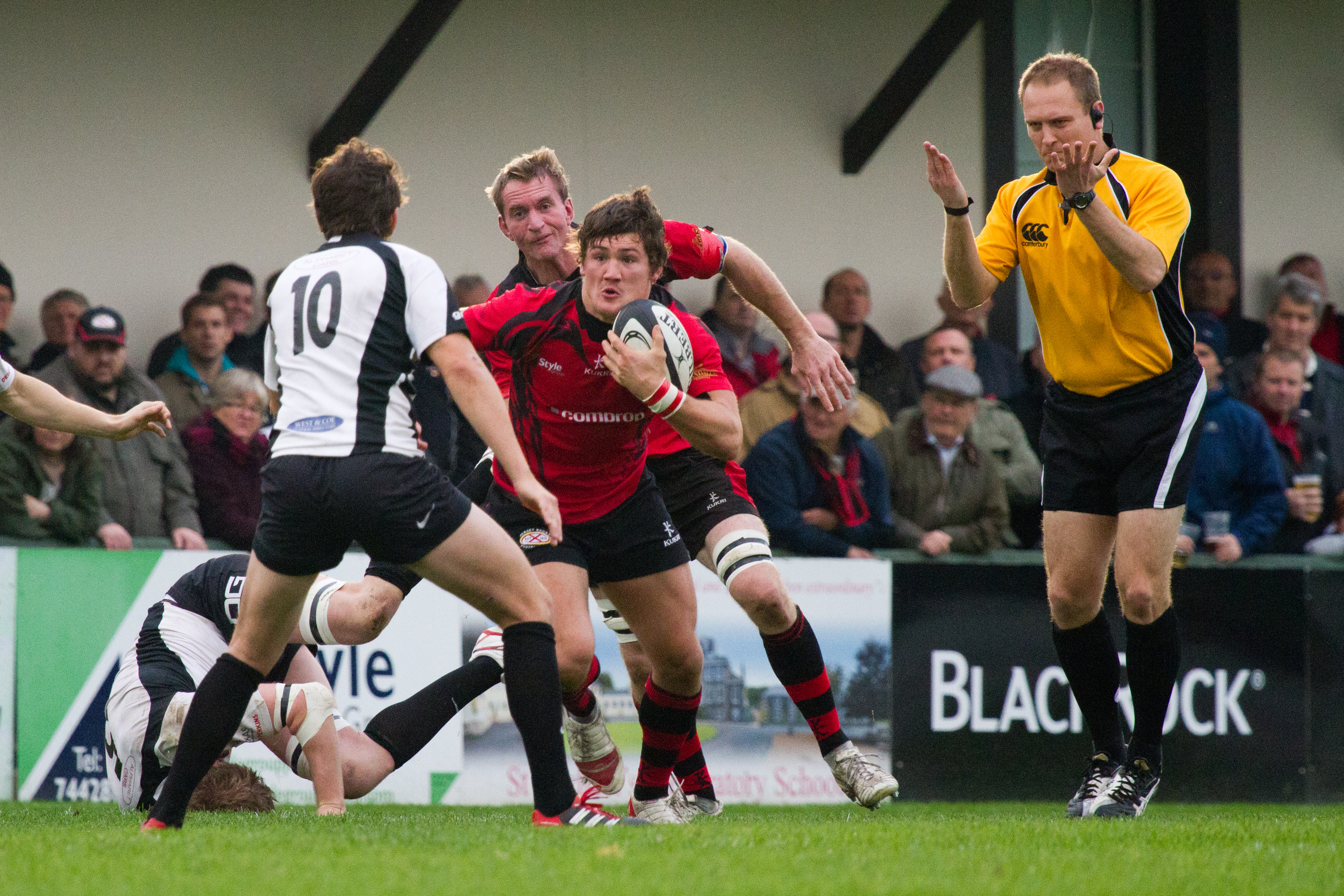 Jersey vs. Barking at St. Peter, on 5th November 2011.